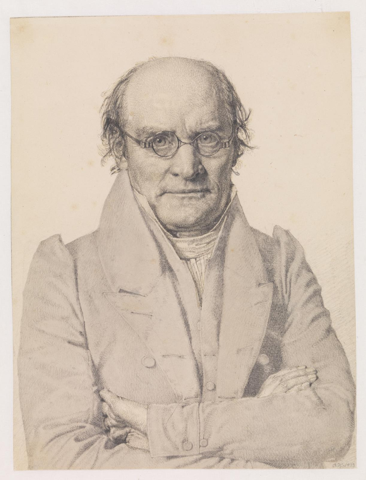 Frederik Christian Sibbern became professor of philosophy at the University of Copenhagen in 1813.